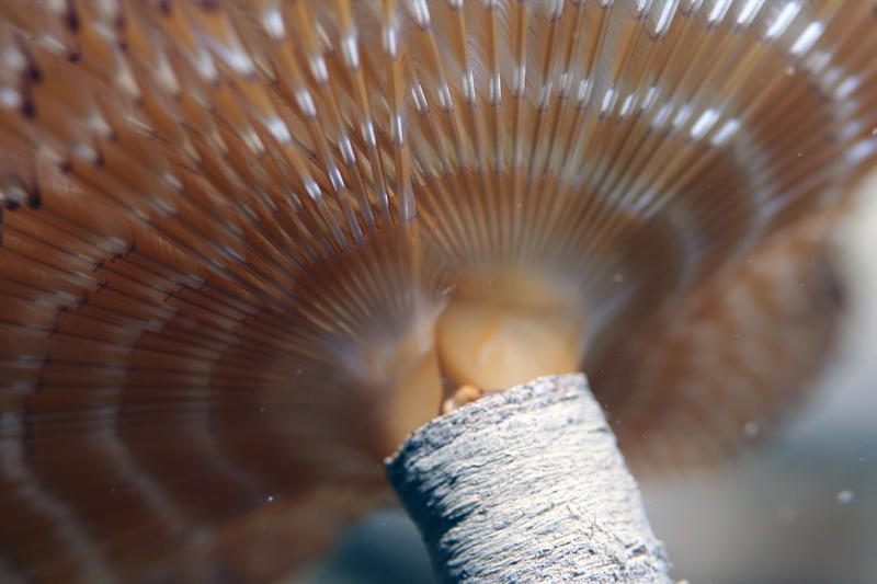 Sabellid worm Spirographis spallanzanii or Sabella spallanzanii